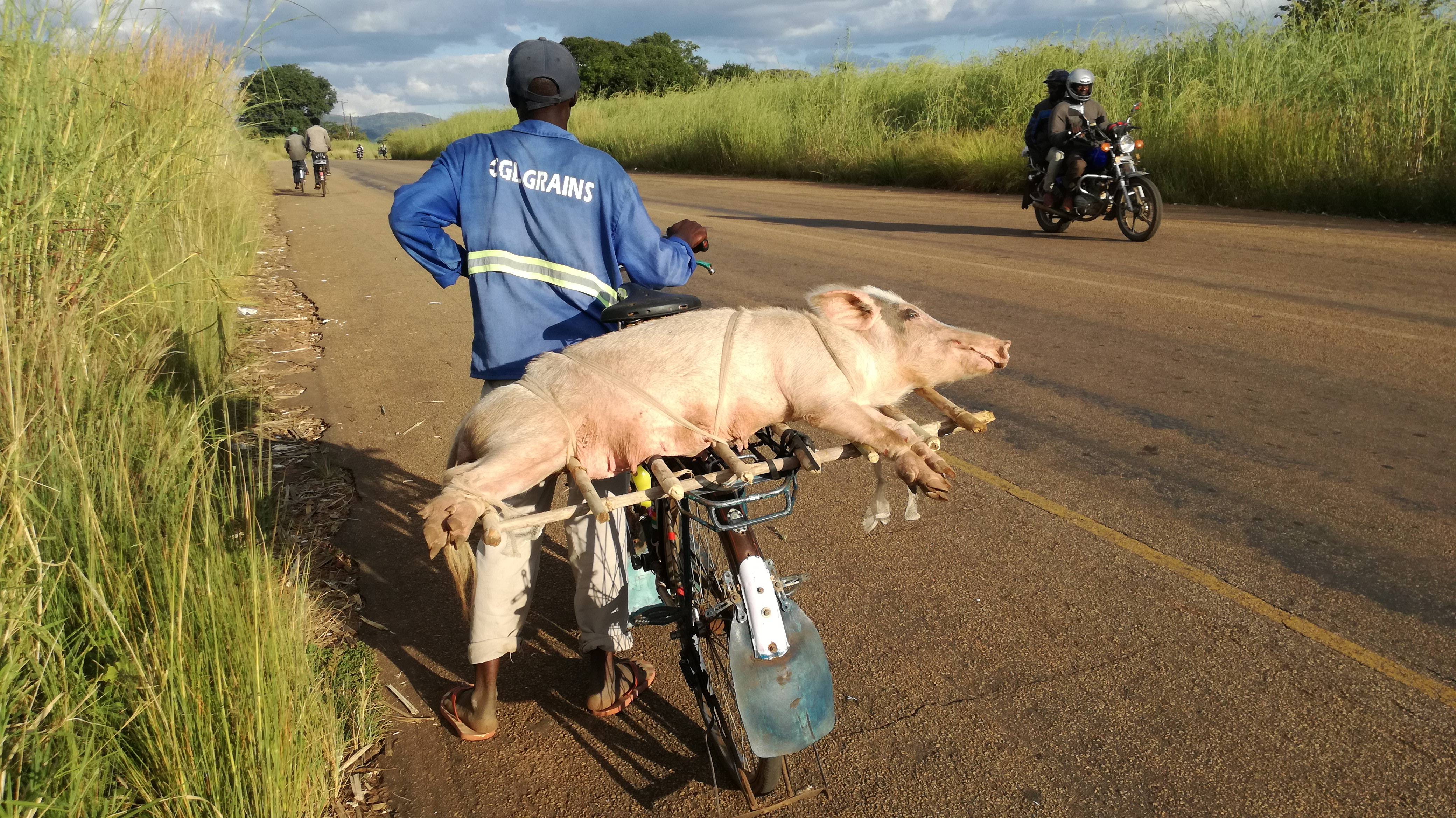 A man carrying a pig on a bicycle. This is an image with the theme "Africa on the Move or Transport" from: Zambia